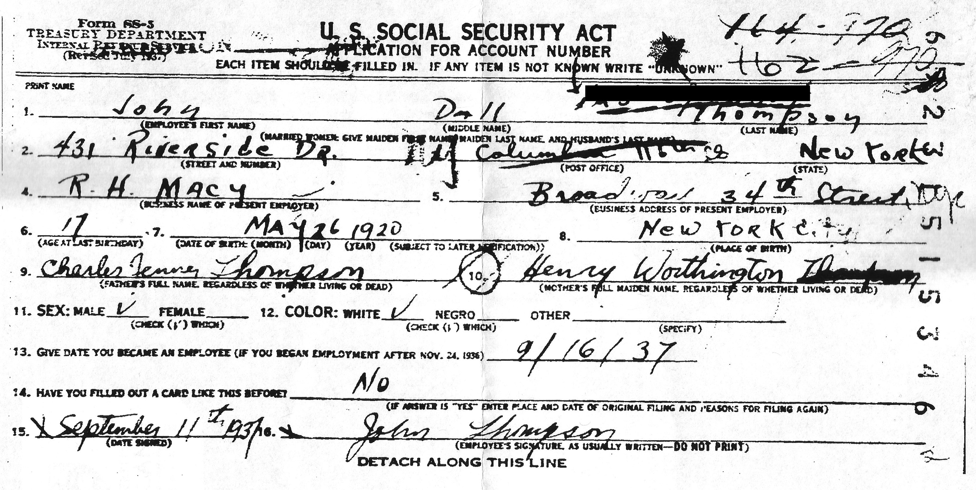 Social Security Application of actor John Dall dated 11 September 1937, under his birth name John Dall Thompson.